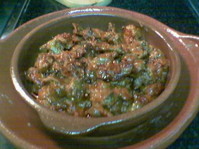 gizzard